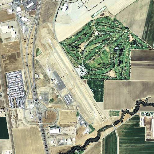 USGS digital orthophoto of Mefford Field Airport in California